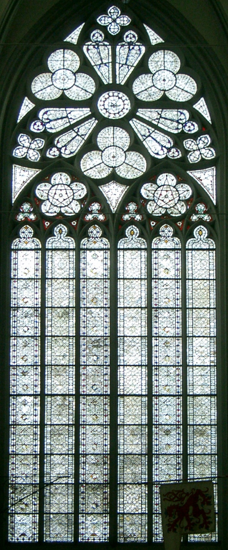 "Bergischer Dom" in Odenthal-Altenberg, Germany. Gothic grisaille window in the northern transept.